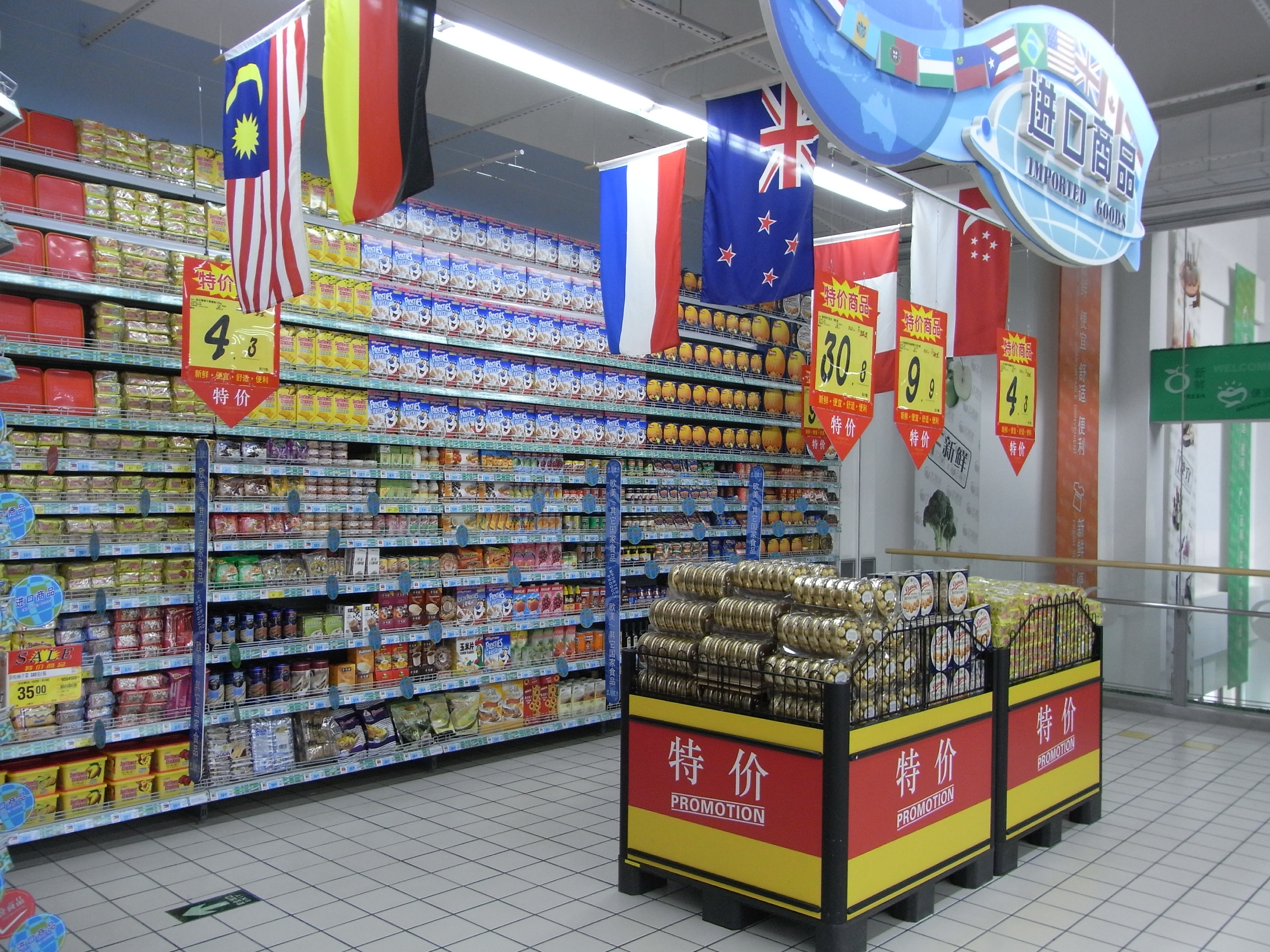 廣東省江門市新會碧桂園大潤發銷貨場